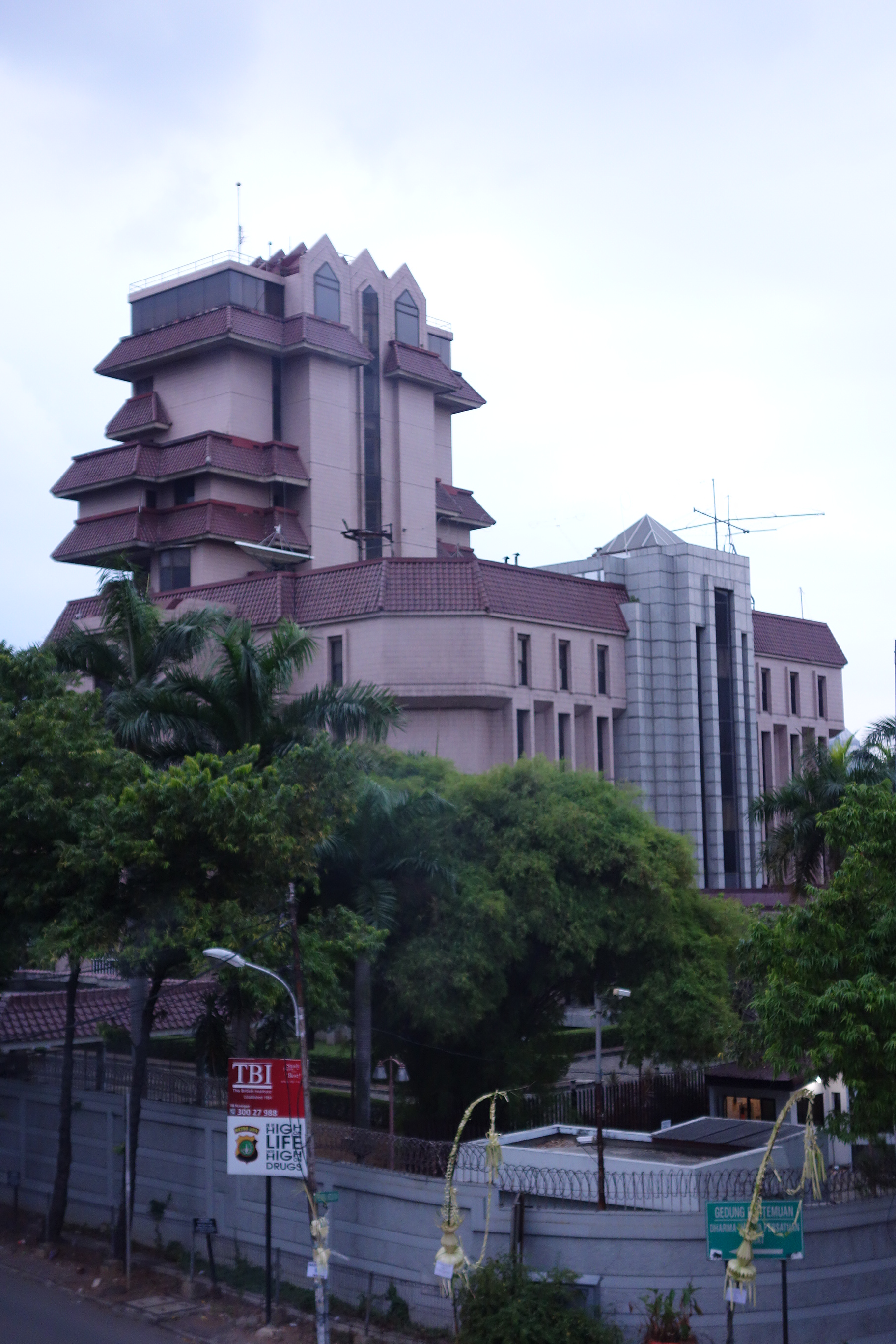 Embassy of the Russian Federation in Jakarta (Rasuna Said street)